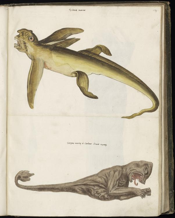 Drawing collected by Felix Platter, to be used in Historiae animalium. The first volume contained drawings of fish, shellfish, crabs and other creatures of the sea. The drawings were made by several artists, mostly anonymous.